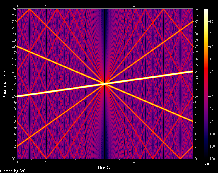 Spectrogram of a very aliased triangular wave swept from 10 to 14 kHz over six seconds and sampled at 48 kHz. Notice that all the aliases converge at (3 s, 12 kHz).